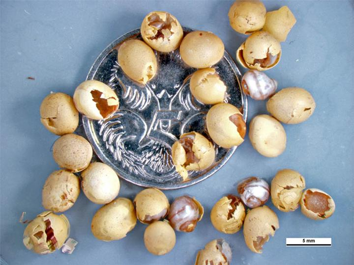 Photo of eggs of Achatina fulica. Locality: New Britain.